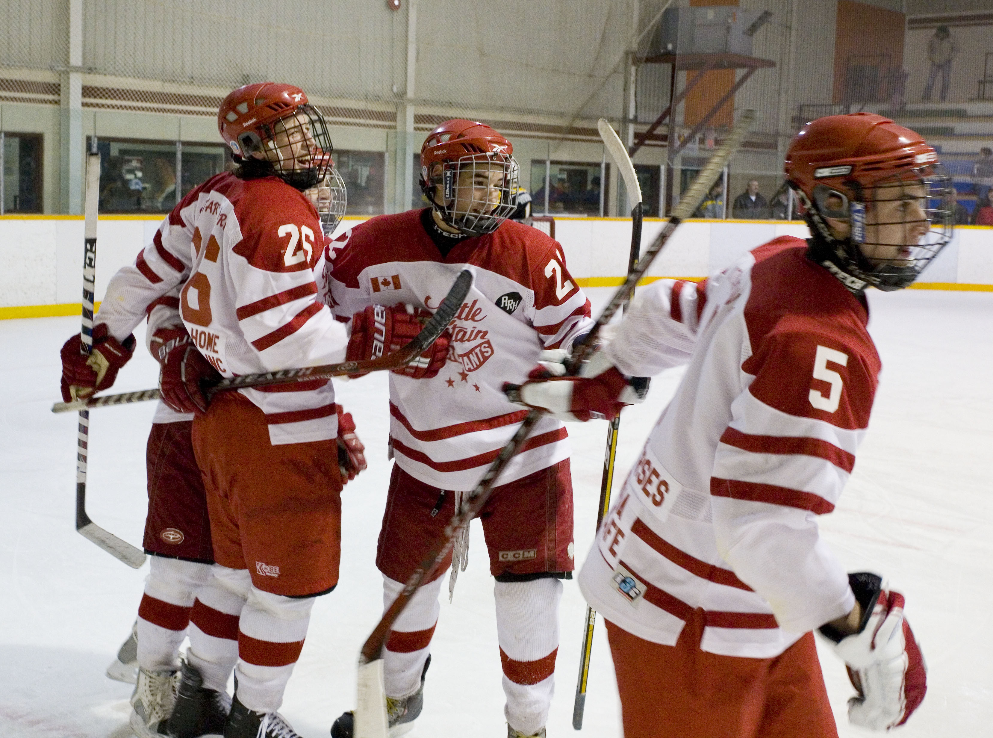 The Little Britain Merchants celebrate their third goal of a game against the Uxbridge Bruins in Central Ontario Junior C Hockey League action at the Woodville/Eldon Community Centre on Sunday, Jan. 2, 2011. The Merchants won the game 4-1.